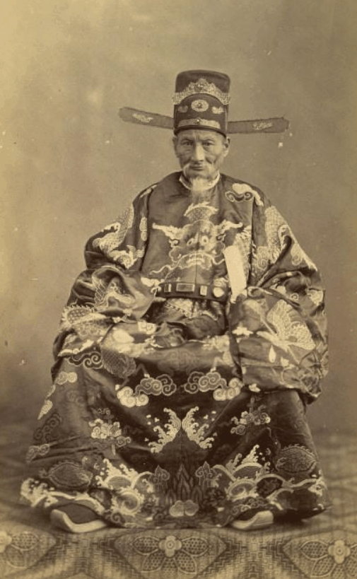 The photo was taken in Paris in 1863 on the occasion of Phan Thanh Gian leading a delegation to France to seek the repatriation of three provinces of southern Vietnam that had been seized by France.